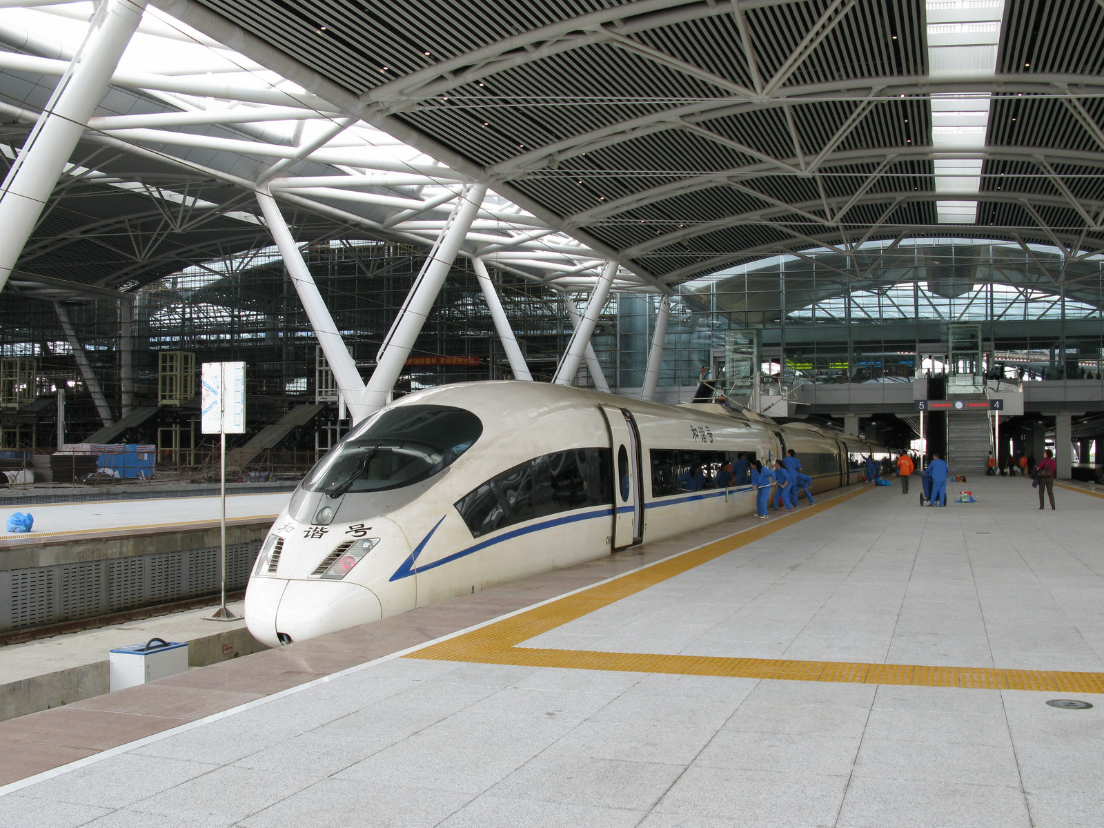 Wuhan-Guangzhou High-Speed Railway CRH3 EMU stopped at Platform 5 of Guangzhou South Railway Station